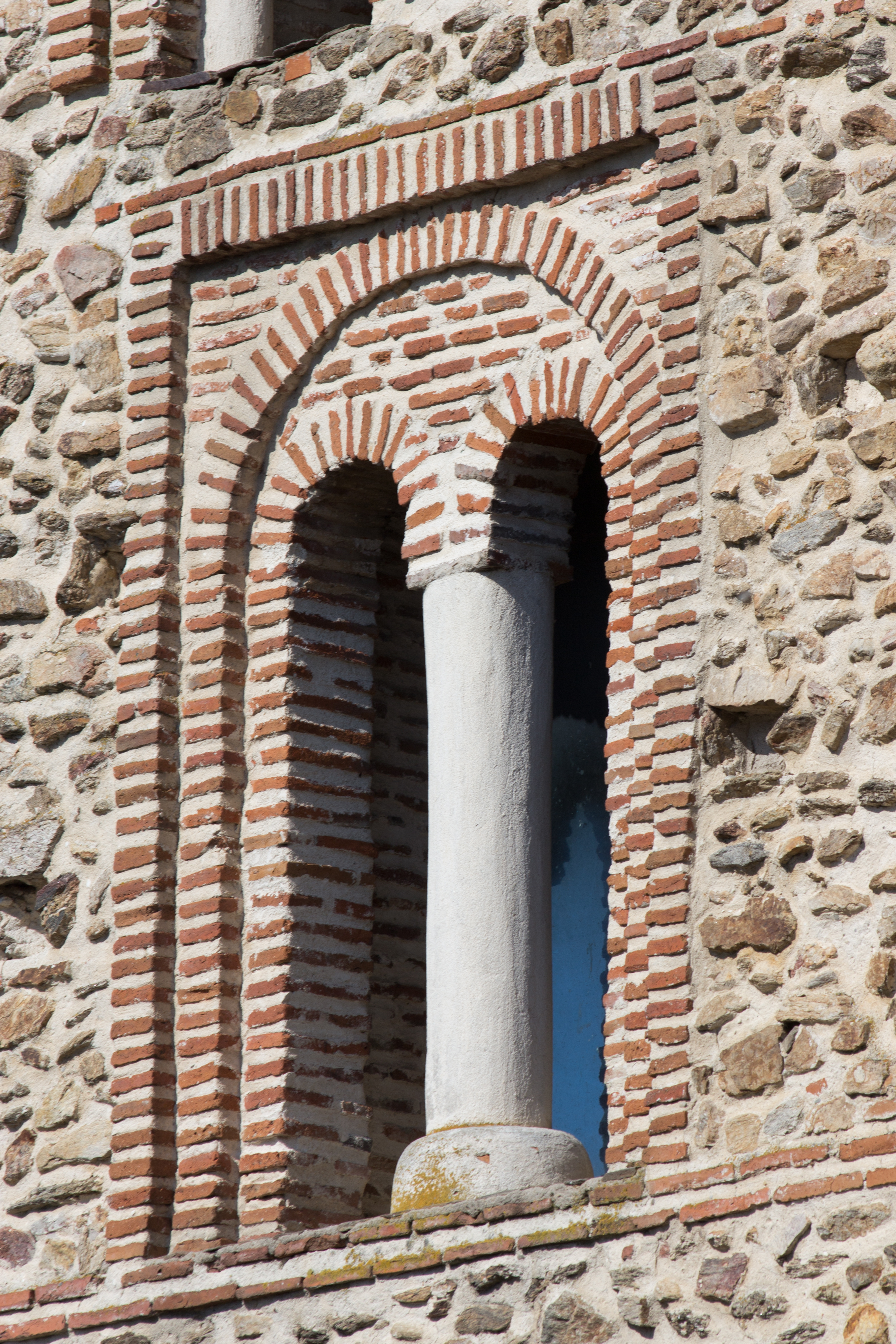 Church of Santa María del Castillo, Buitrago del Lozoya, Community of Madrid, Spain.